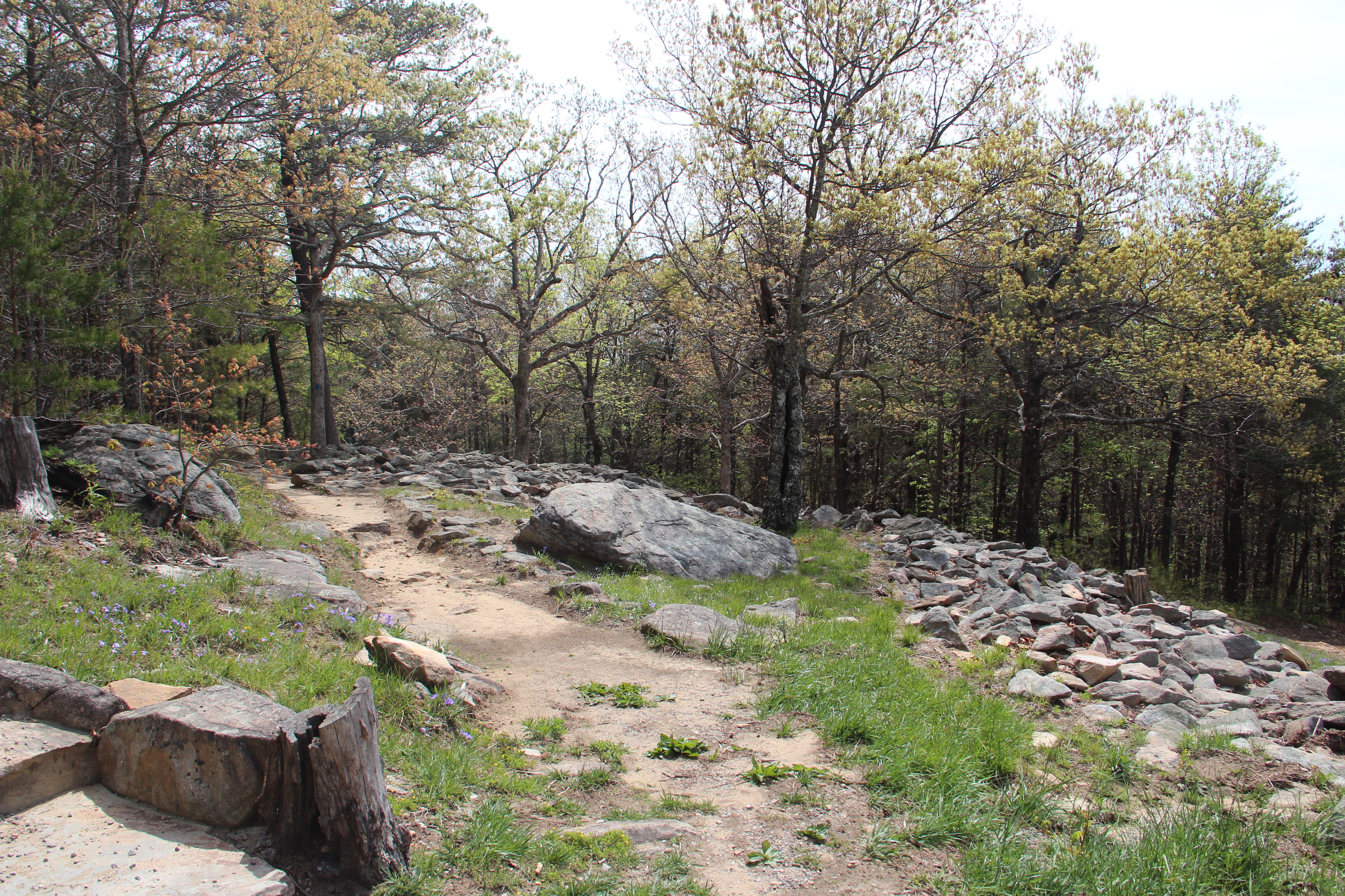 Wall ruins on Fort Mountain, 2016